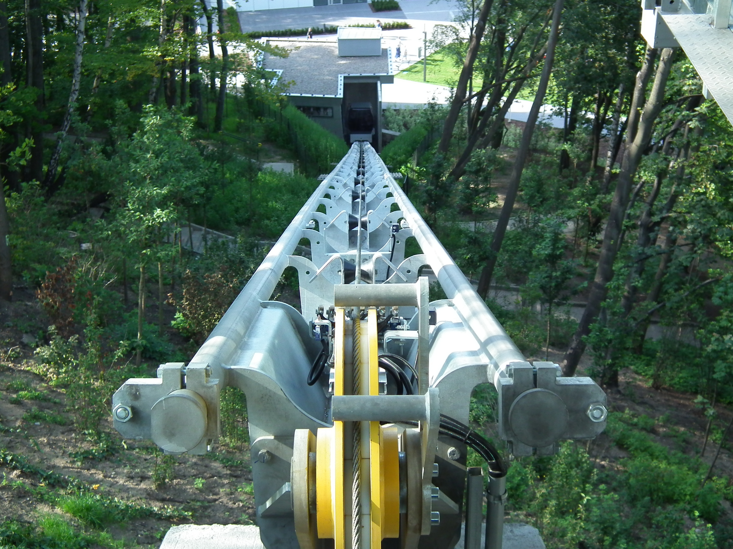 All the track of Gdynia Kamienna Góra Funicular, viewed from upper station